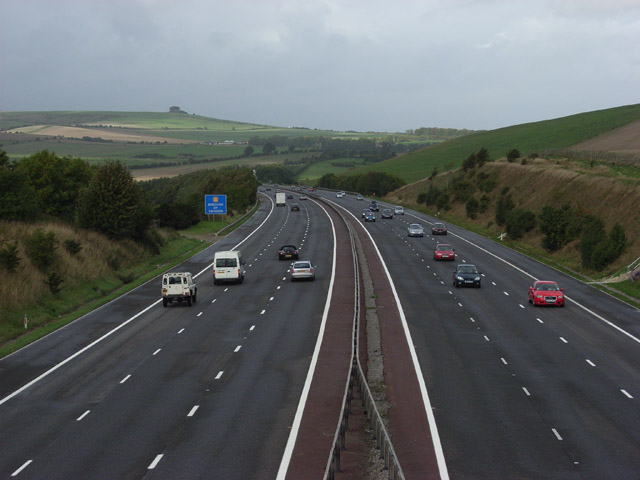 The M4, Peaks Down The sign marks one's arrival in the borough of Swindon. Things go downhill from here.